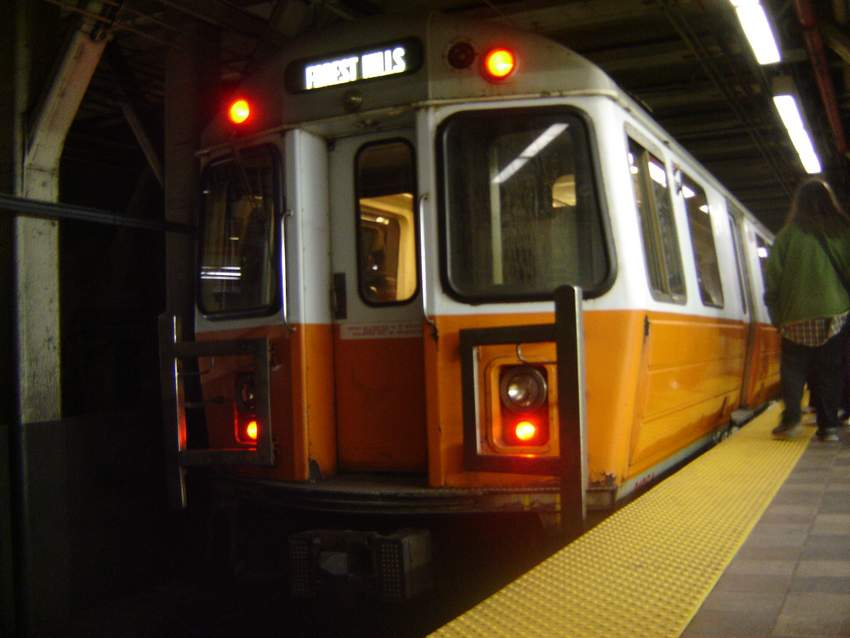 A southbound Orange Line train at Downtown Crossing in 2005